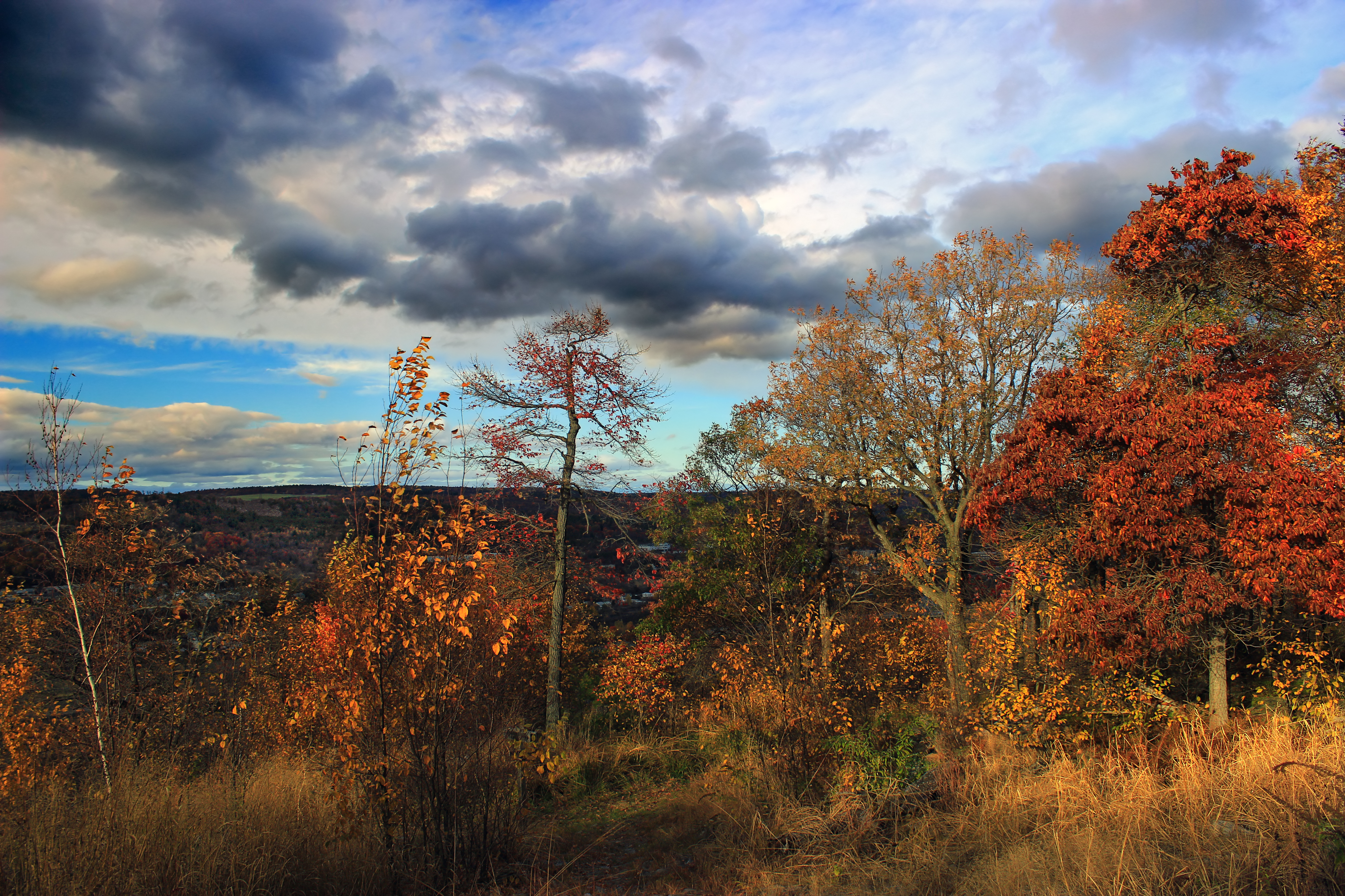 North view from the Prairie Grass Trail at the Lehigh Gap Nature Center, Carbon County.